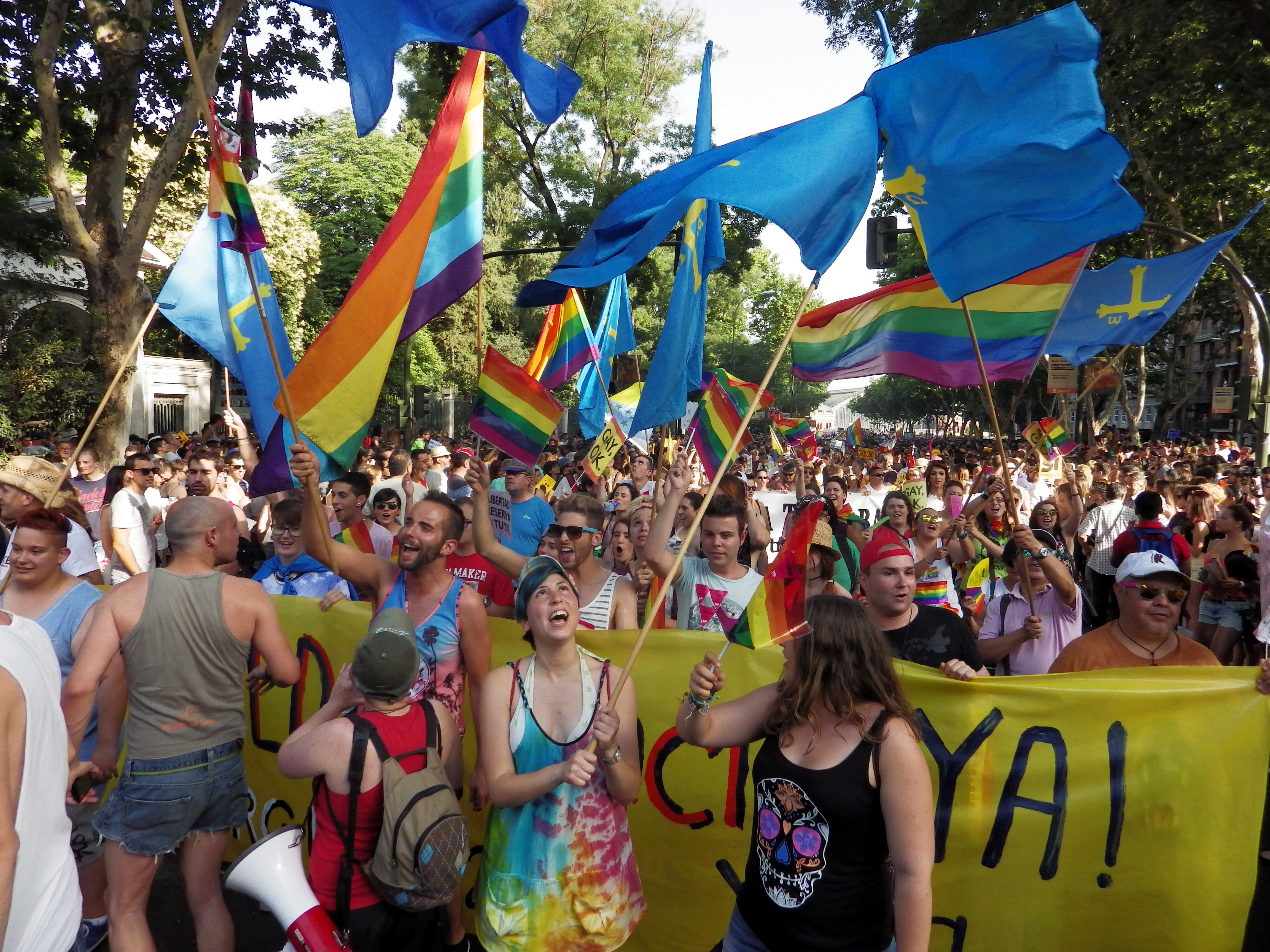 Imágenes de XEGA en la Manifestación estatal del #OrgulloLGTB en Madrid el sábado cuatro de julio de 2015 bajo el lema «Leyes por la igualdad real ¡YA!» organizada por COGAM Colectivo LGTB Madrid y FELGTB.